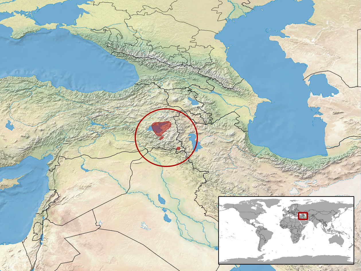 geographic distribution of Eirenis thospitis (Native: Turkey)